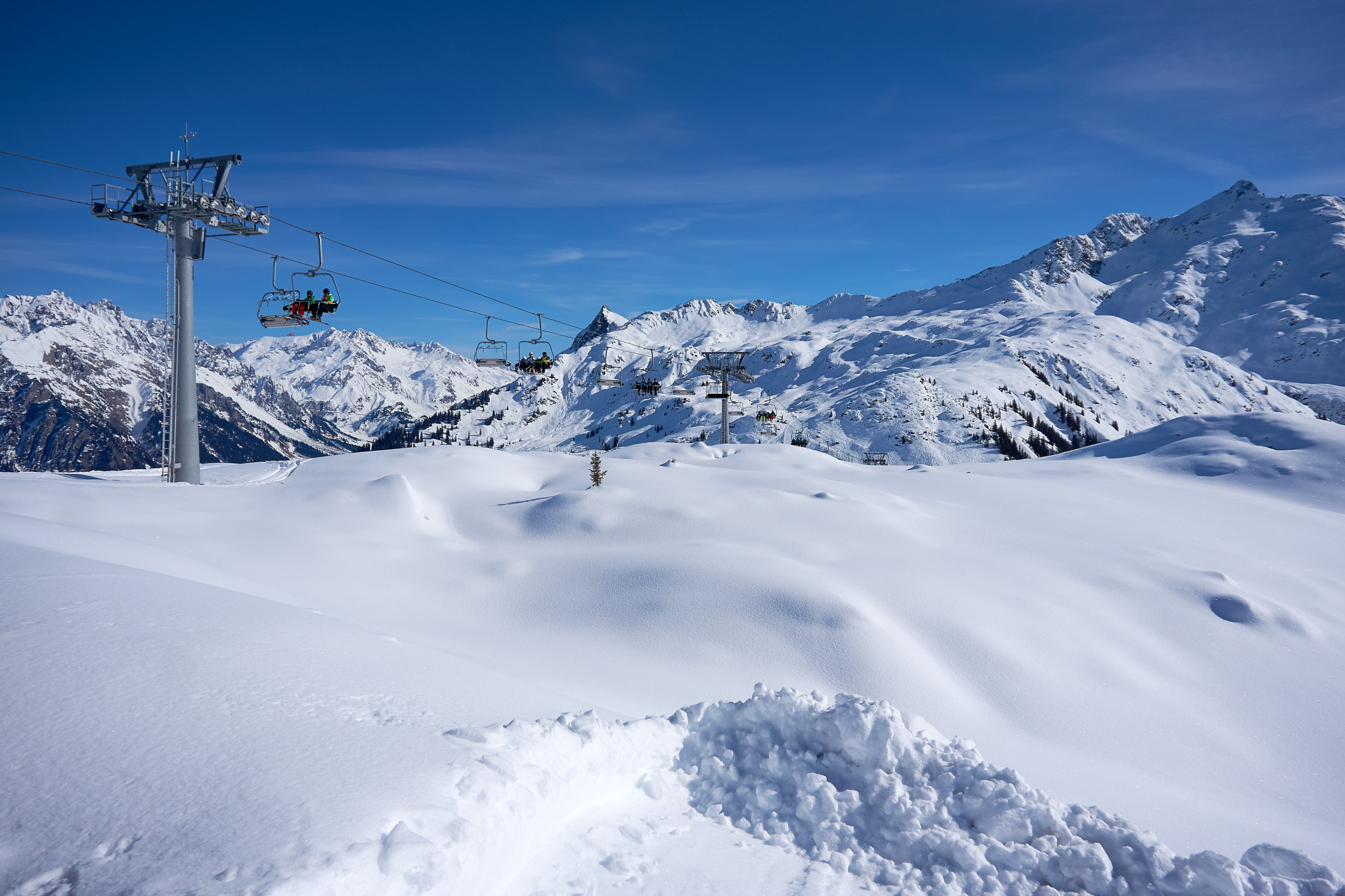 500px provided description: Sonnenkopf, Ski Arlberg this Video on Youtube: my Youtube Channel: [#Ski ,#Kl?sterle ,#Alpin ,#Sonnenkopf ,#Ski Arlberg ,#Martin Weinhardt]